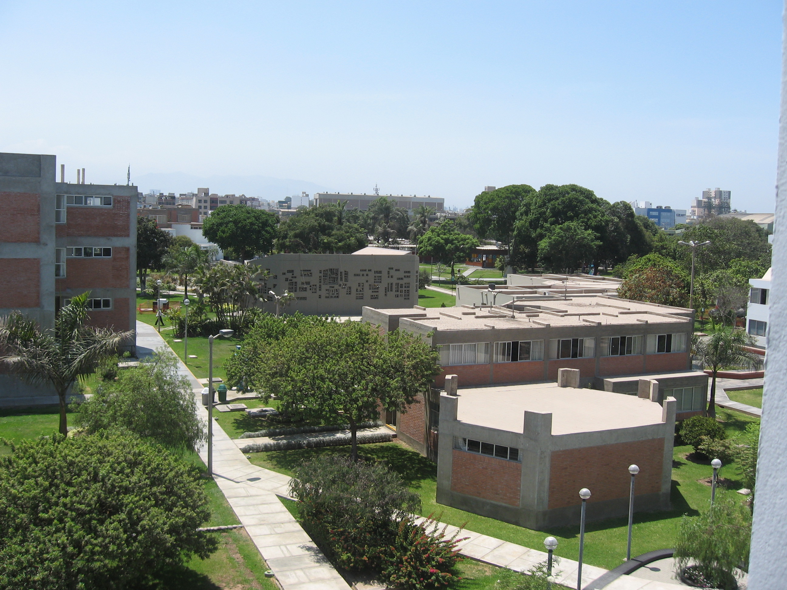 This is a view from the 4th floor of Building Zeta (Z) of the Pontificia Universidad Católica del Perú, looking approximately south-southeast onto the Department of Theology. The main library is to the left side of the image.